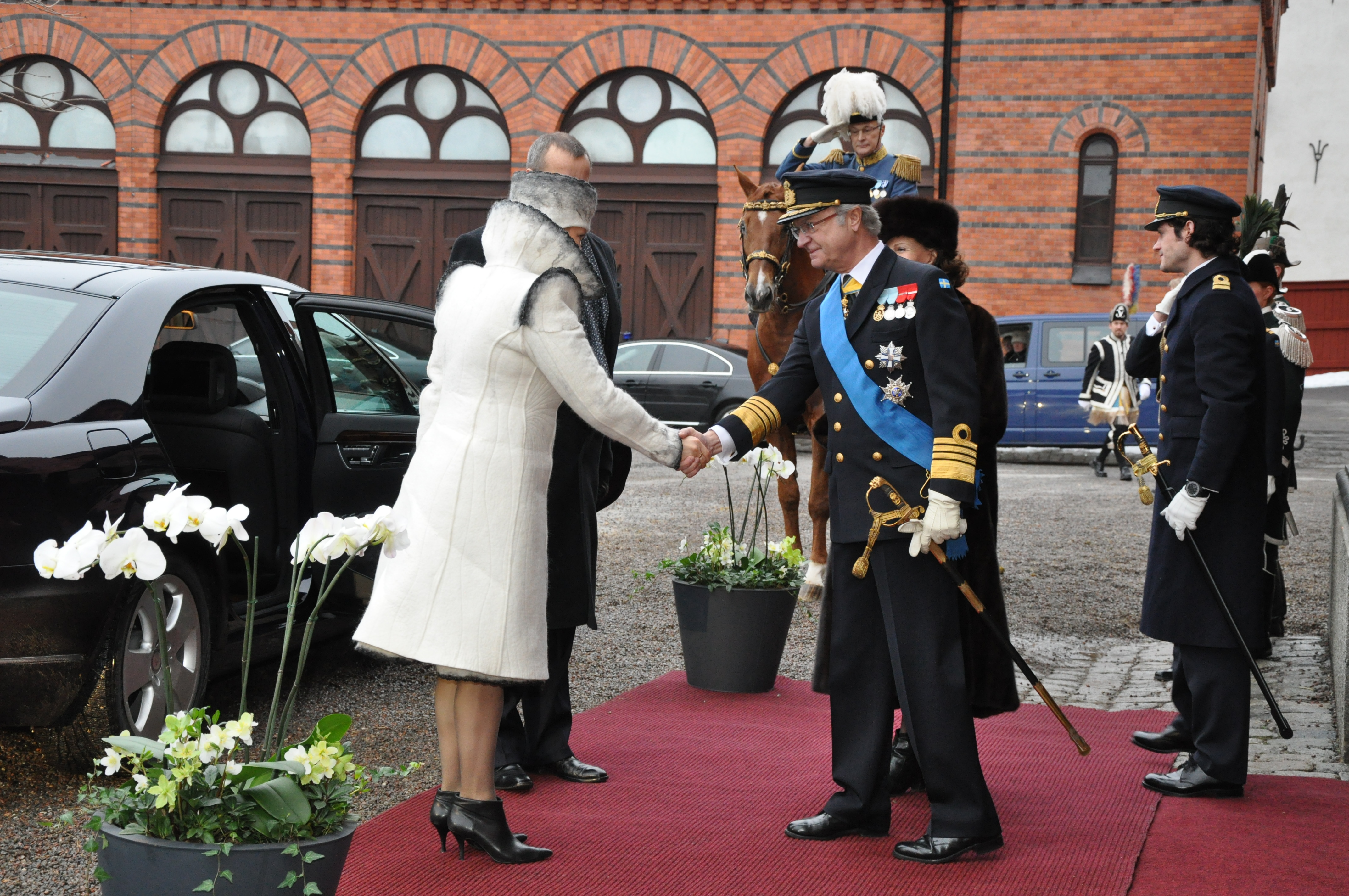 State visit to Stockholm, Sweden, 19-19-20-January 2011 - King Carl Gustav and Queen Silvia greet the first lady of Estonia, Evelin Ilves